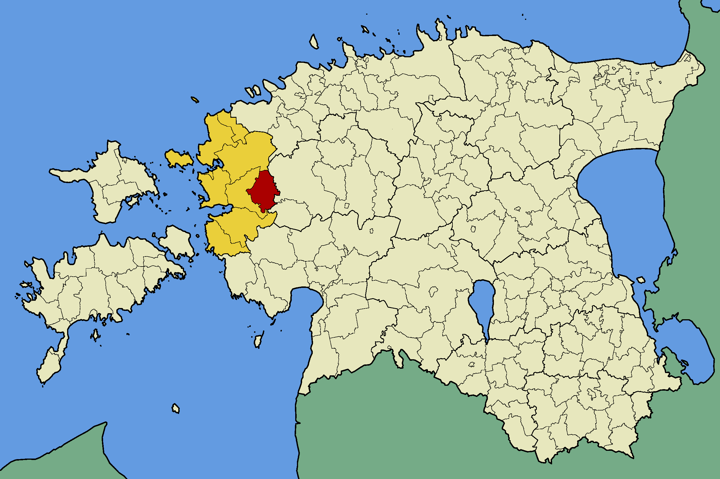 Map of Estonia with borders of municipalities (parishes). Lääne county and Kullamaa municipality emphasized.